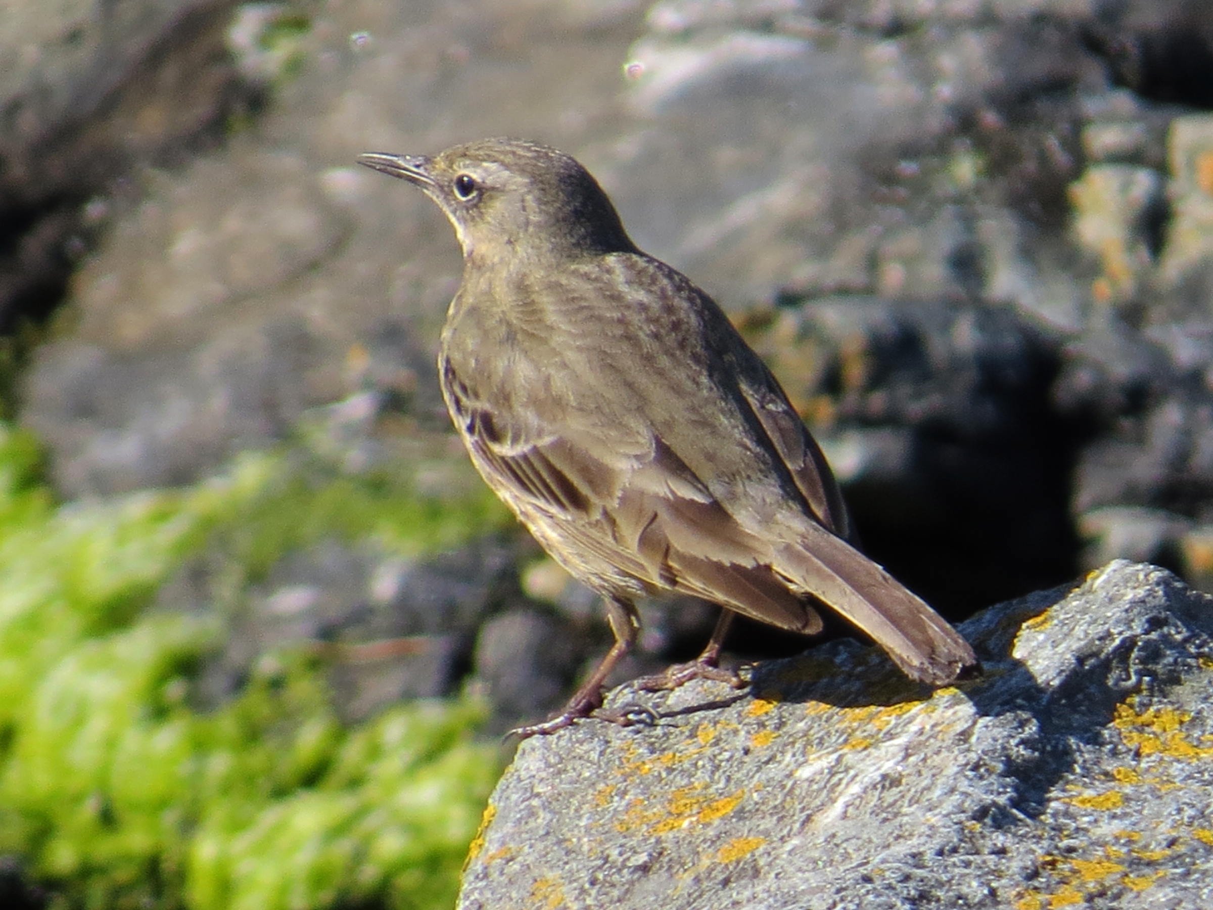 Rock Pipit Anthus petrosus, Portsoy, Scotland, UK.